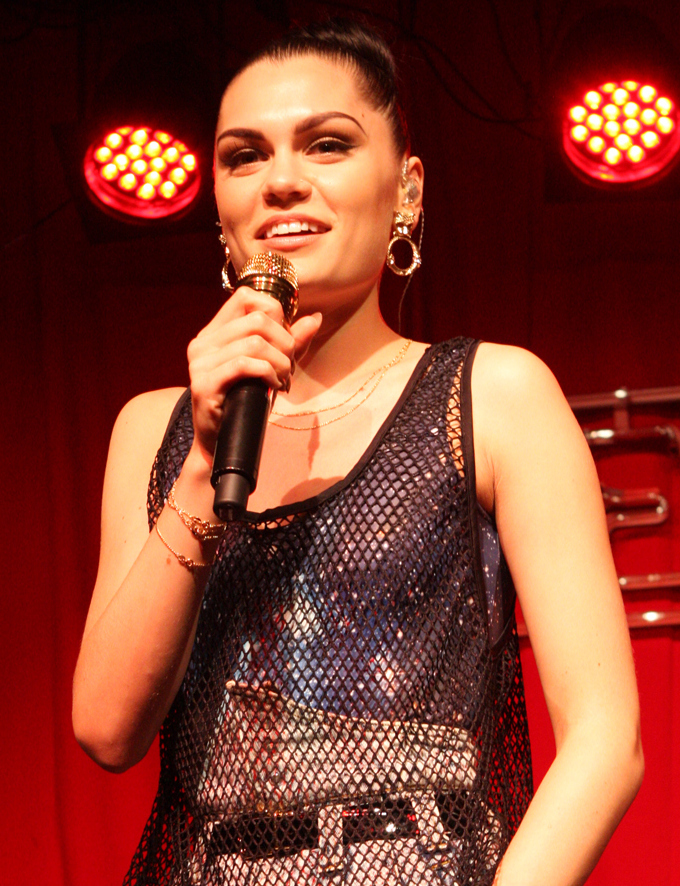 Jessie J: 2012 Nova's Red Room - The Star, In Sydney Australia.